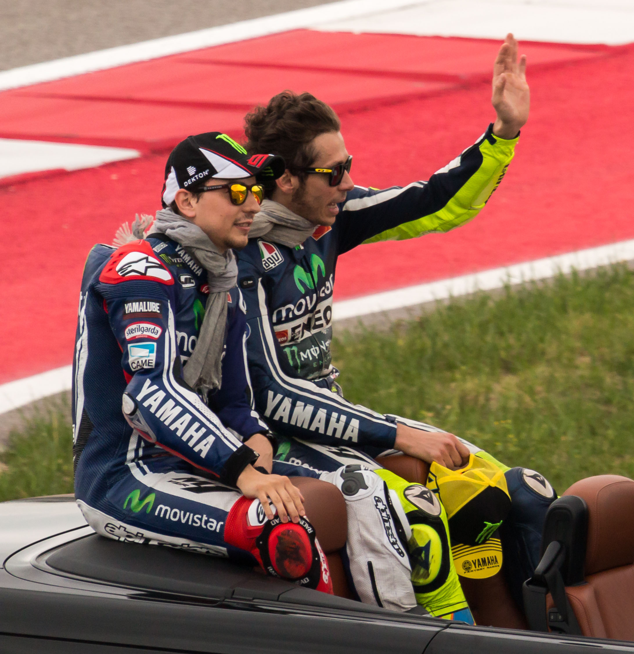 Jorge Lorenzo (left) and Valentino Rossi (right), 2014 Motorcycle Grand Prix of the Americas.